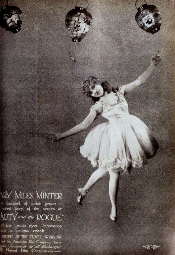 Advertisement for the American comedy crime drama film Beauty and the Rogue (1918) with Mary Miles Minter, on page 3 of the February 2, 1918 Exhibitors Herald.